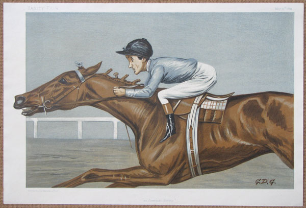 Caricature of American jockey Tod Sloan displaying his distinctive "monkey crouch" style of riding that was much ridiculed at the time. Caption read "An American Jockey".